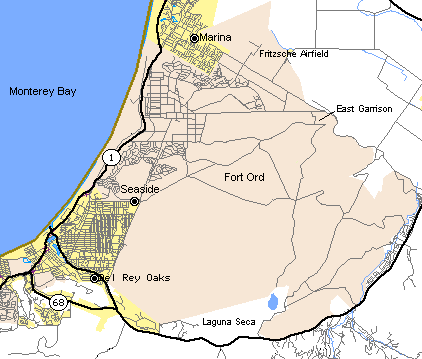 Map of the Fort Ord site — in Monterey County, California.